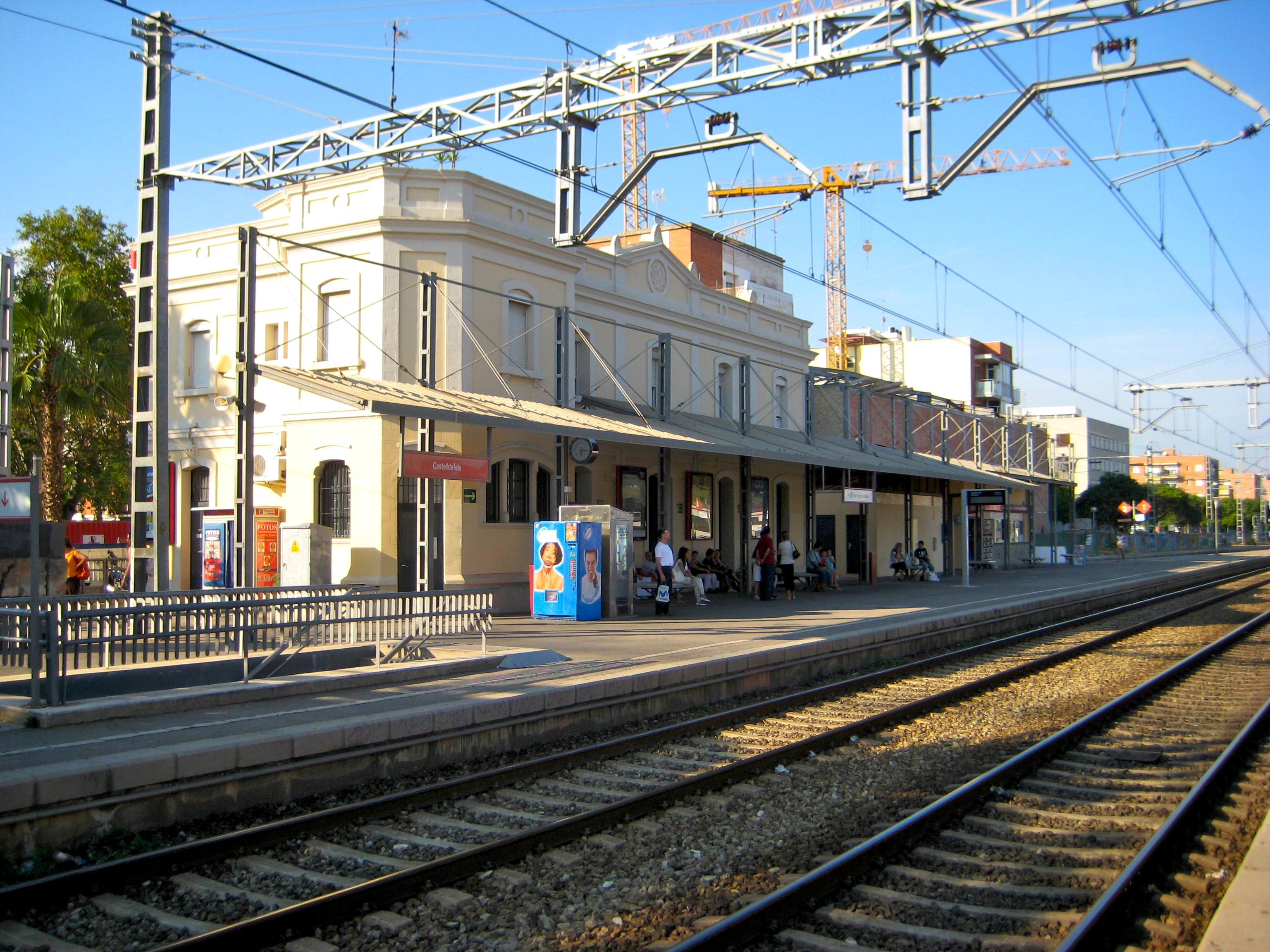 A shot of Castelldefels (Barcelona, Spain) Railway Station from platform 3